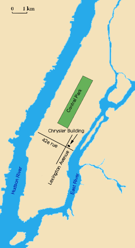 Location of the Chrysler Building in New York City